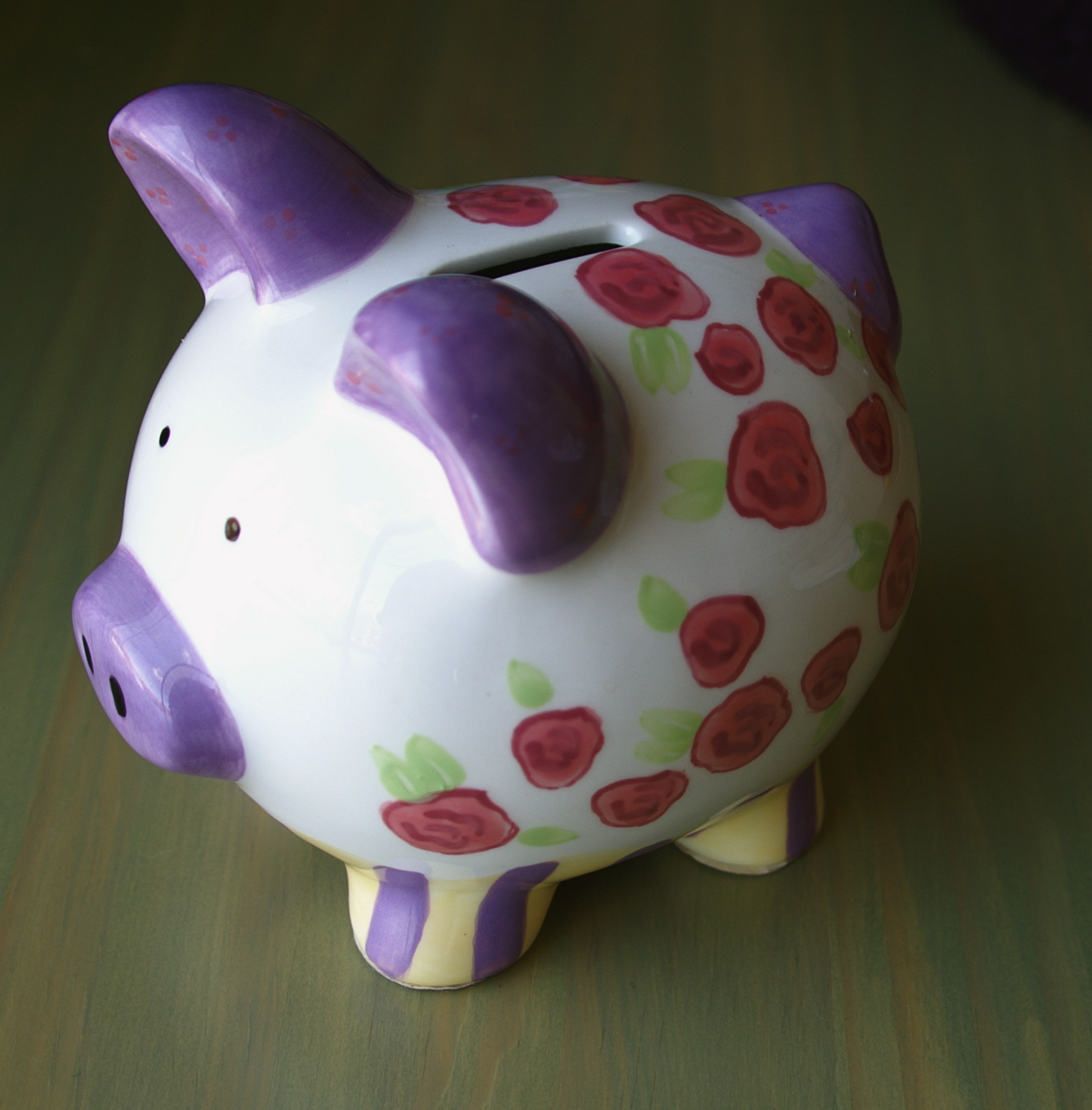 ceramic piggy bank